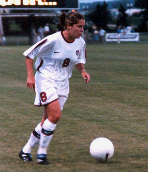 Shannon Macmillan in St.louis